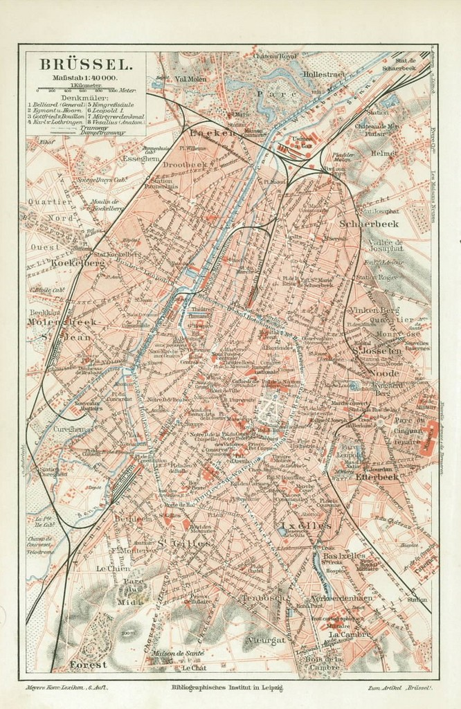 Brussels, Belgium ; map 1907